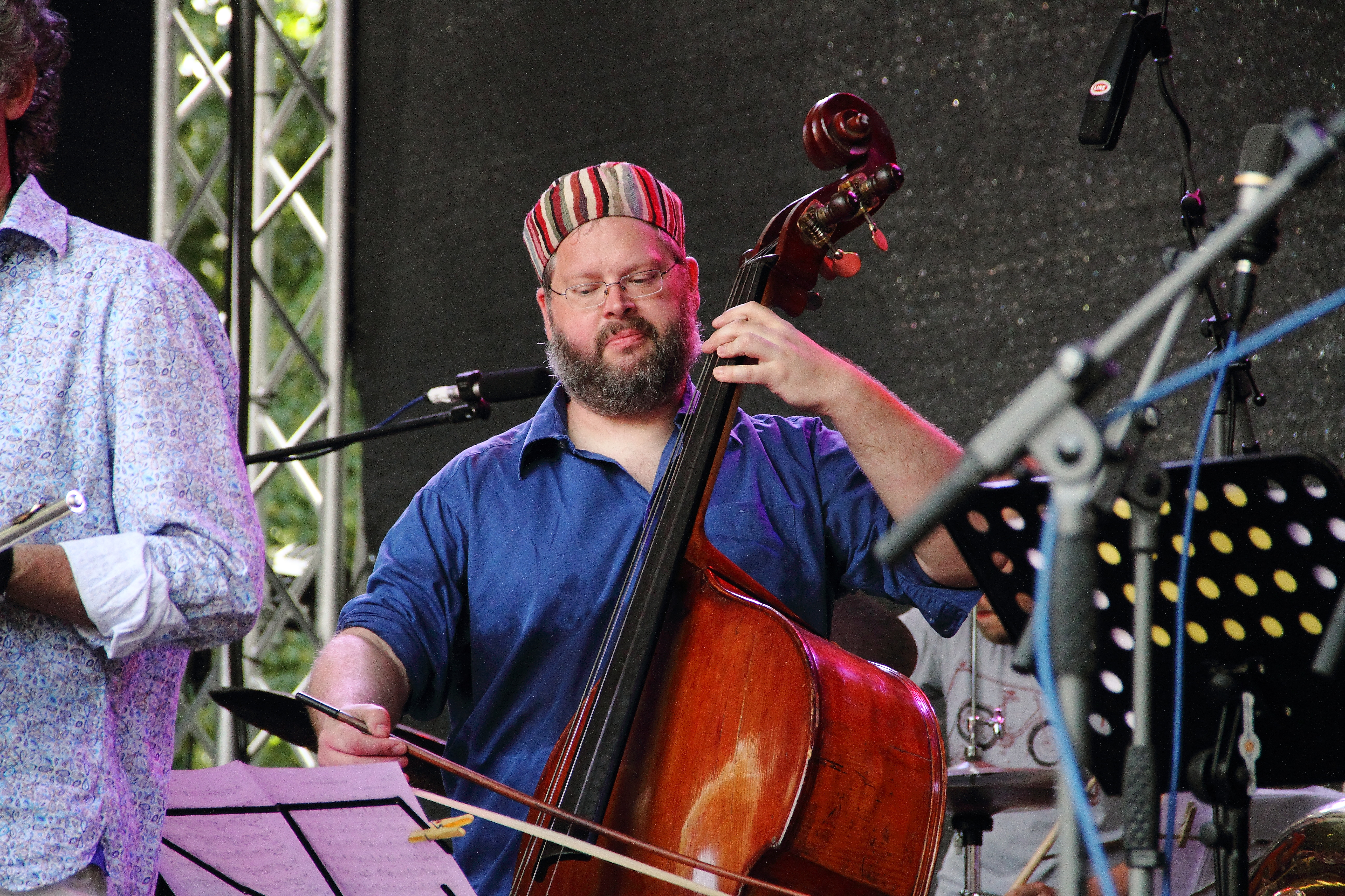 Matthias Schriefl and his orchestra performing on the concert stage in Heinepark at Rudolstadt-Festival 2016.